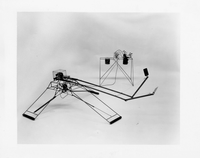 Squat (1966) The Tom Shannon Archive Photographer: Tom Shannon